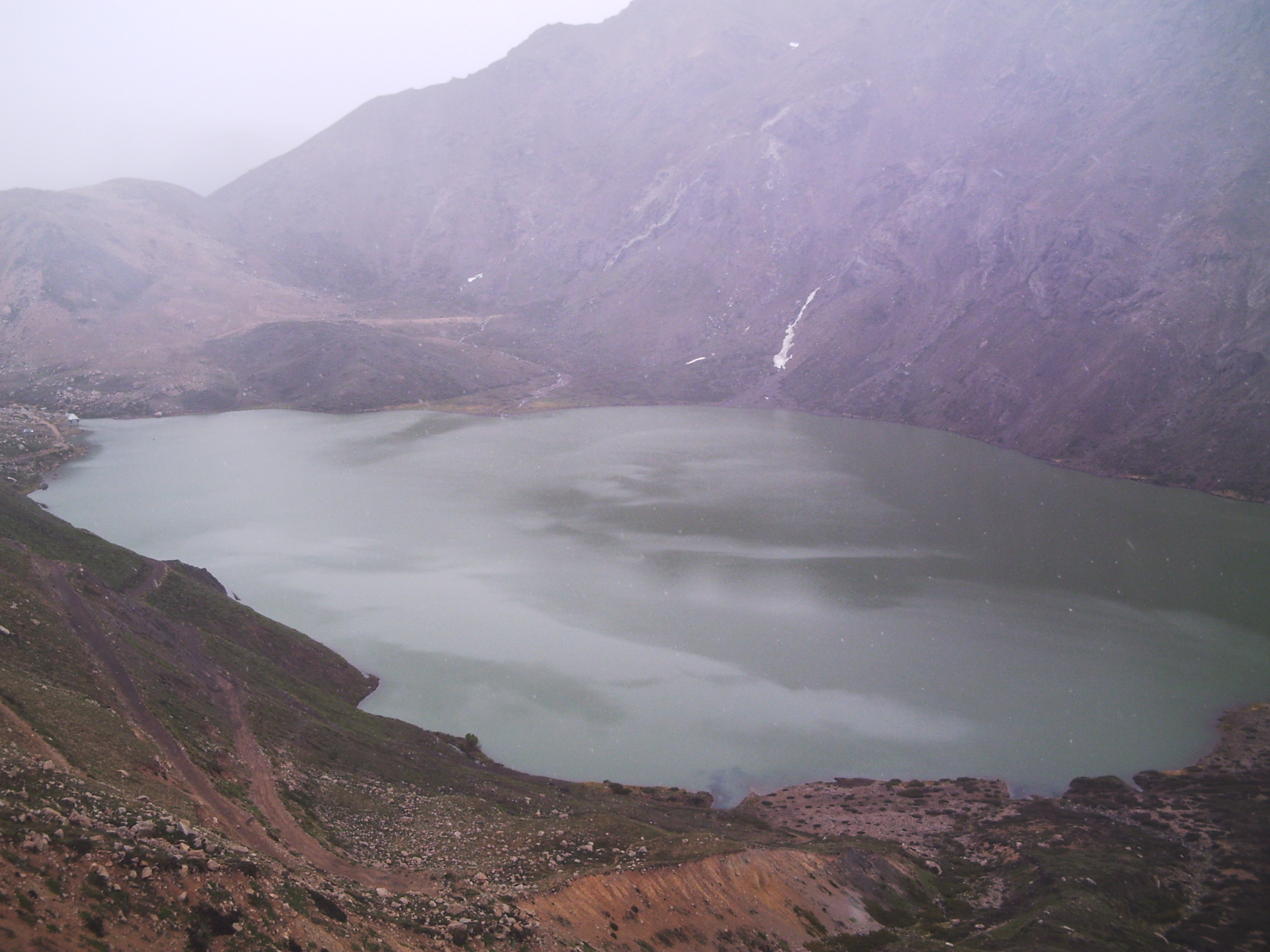 Laguna El Encañado, ubicada en los Andes chilenos